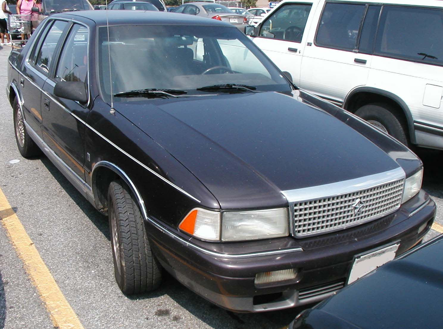 Plymouth Acclaim photographed in USA.